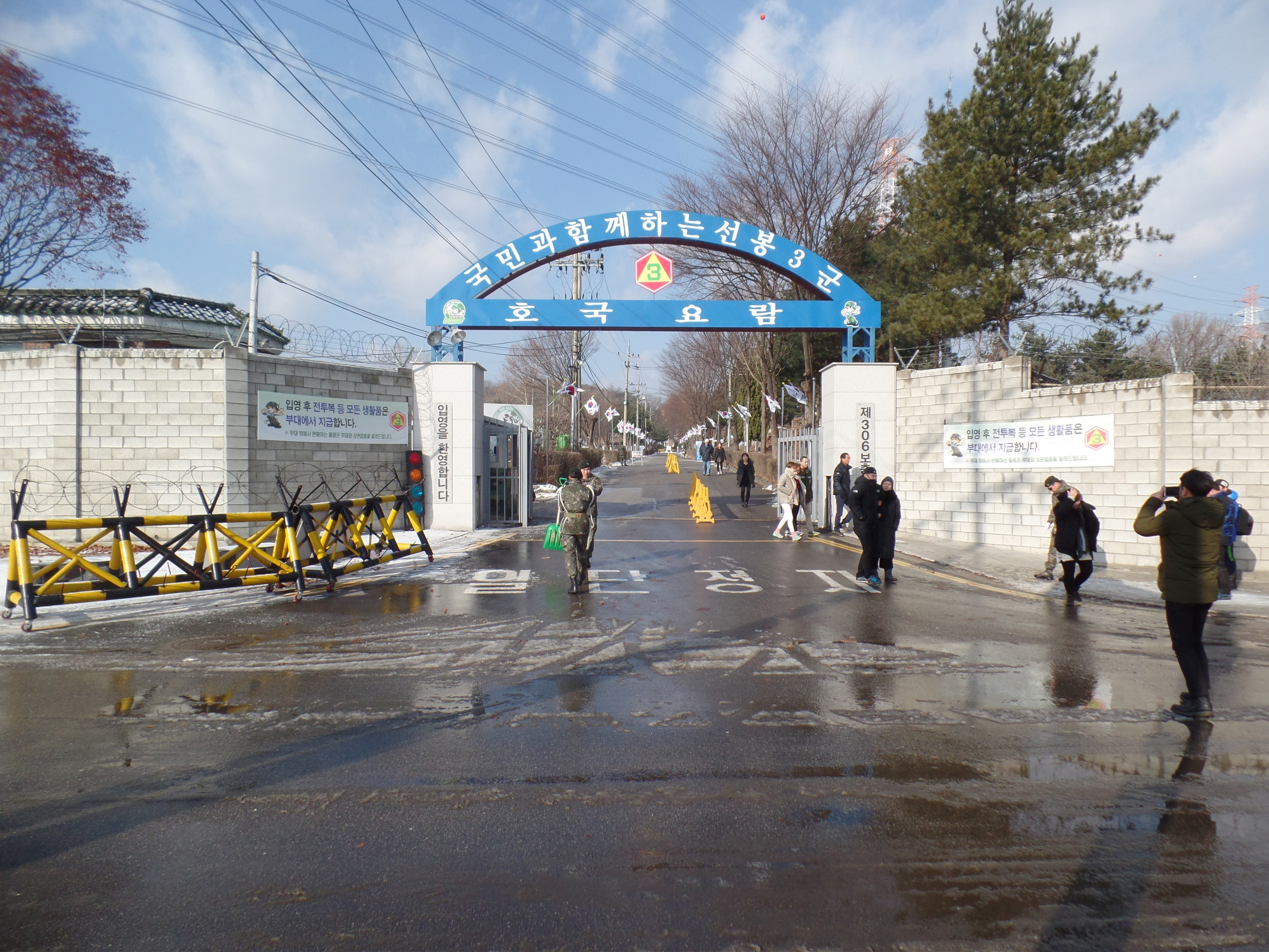 Main gate of Republic of Korea Army 306th Replacement Battalion